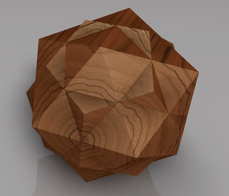 A rendering of the compound of dodecahedron and icosahedron (aka: the first stellation of icosidodecahedron). Geometry from George Hart.